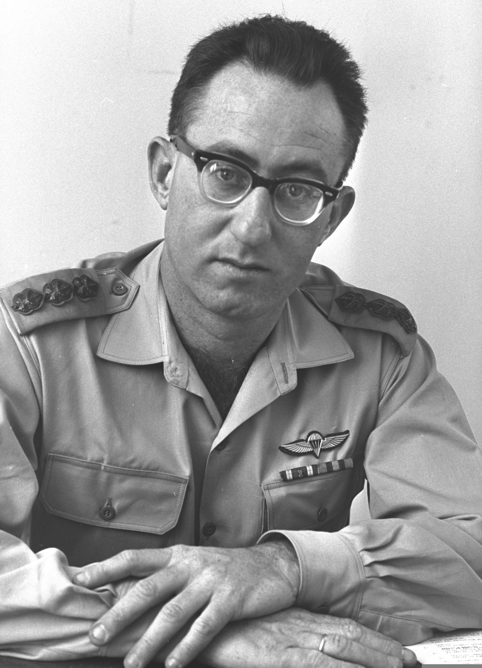 Aluf mishne Elad Peled commander of national defence college.